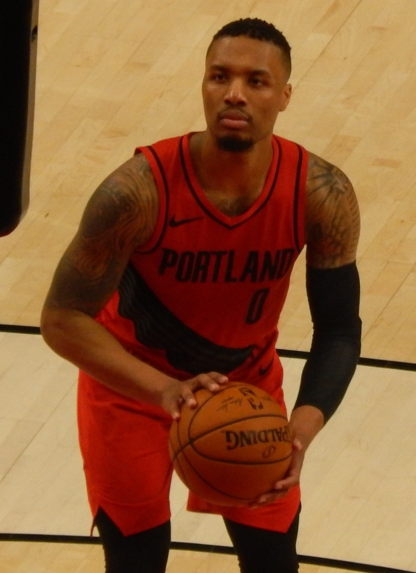 Damian Lillard #0 of the Portland Trail Blazers against the Minnesota Timberwolves on March 1, 2018 at Moda Center in Portland, Oregon.